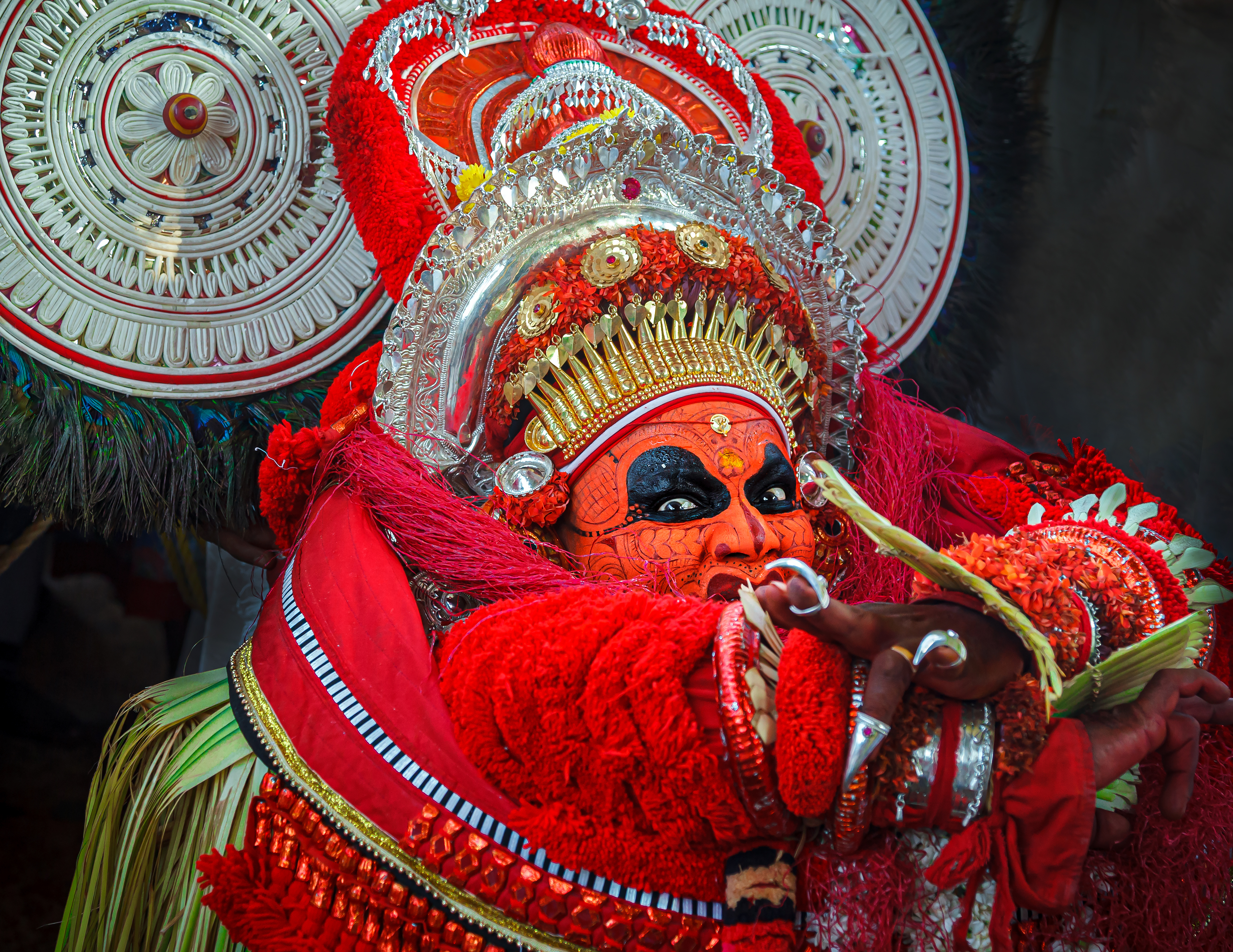 Vishnumoorthy daiva is an part of tulunada daivaradhane, It is influence of Theyyam northern Kerala